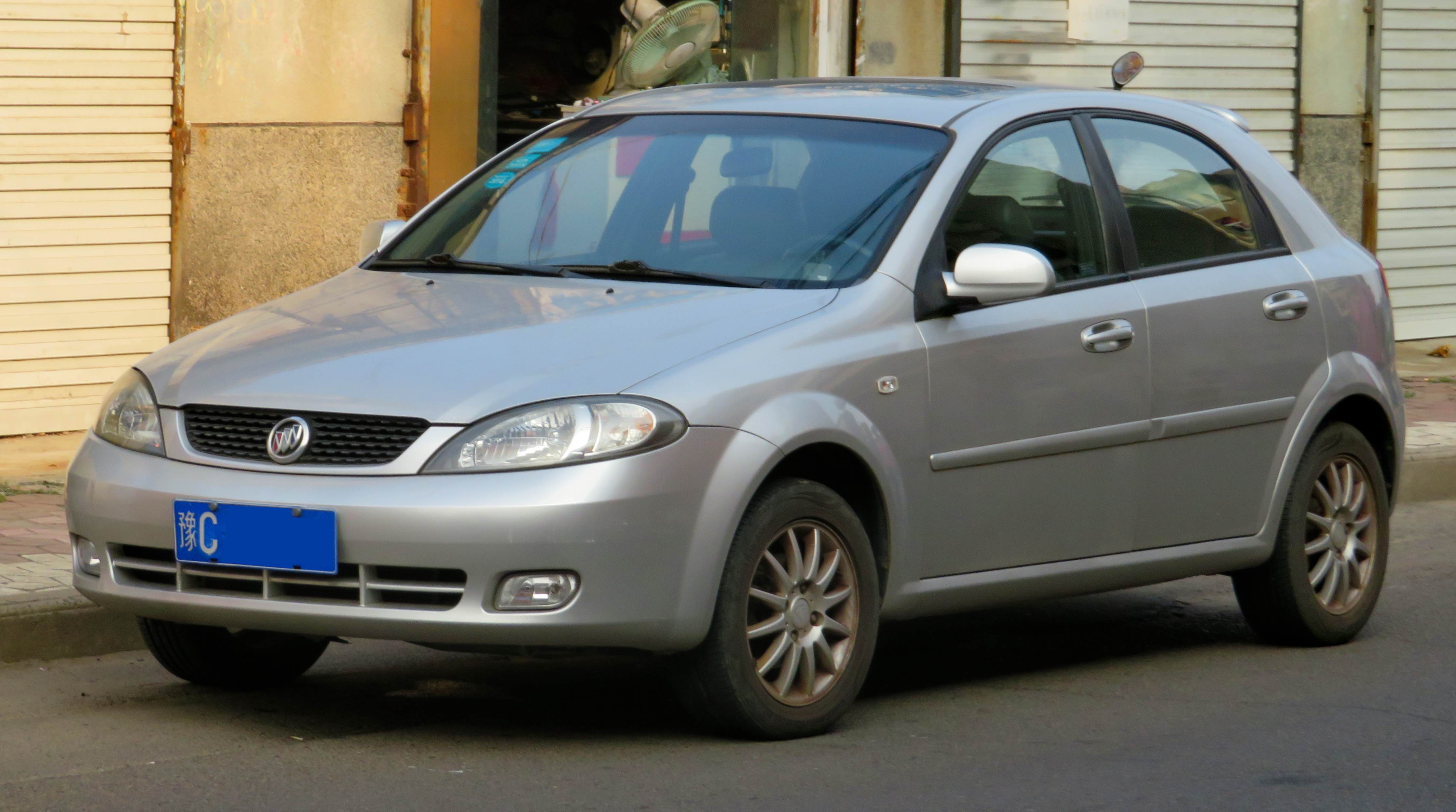 A 2005-2009 Shanghai-GM Buick Excelle HRV photographed in Xigong District, Luoyang, Henan province, China